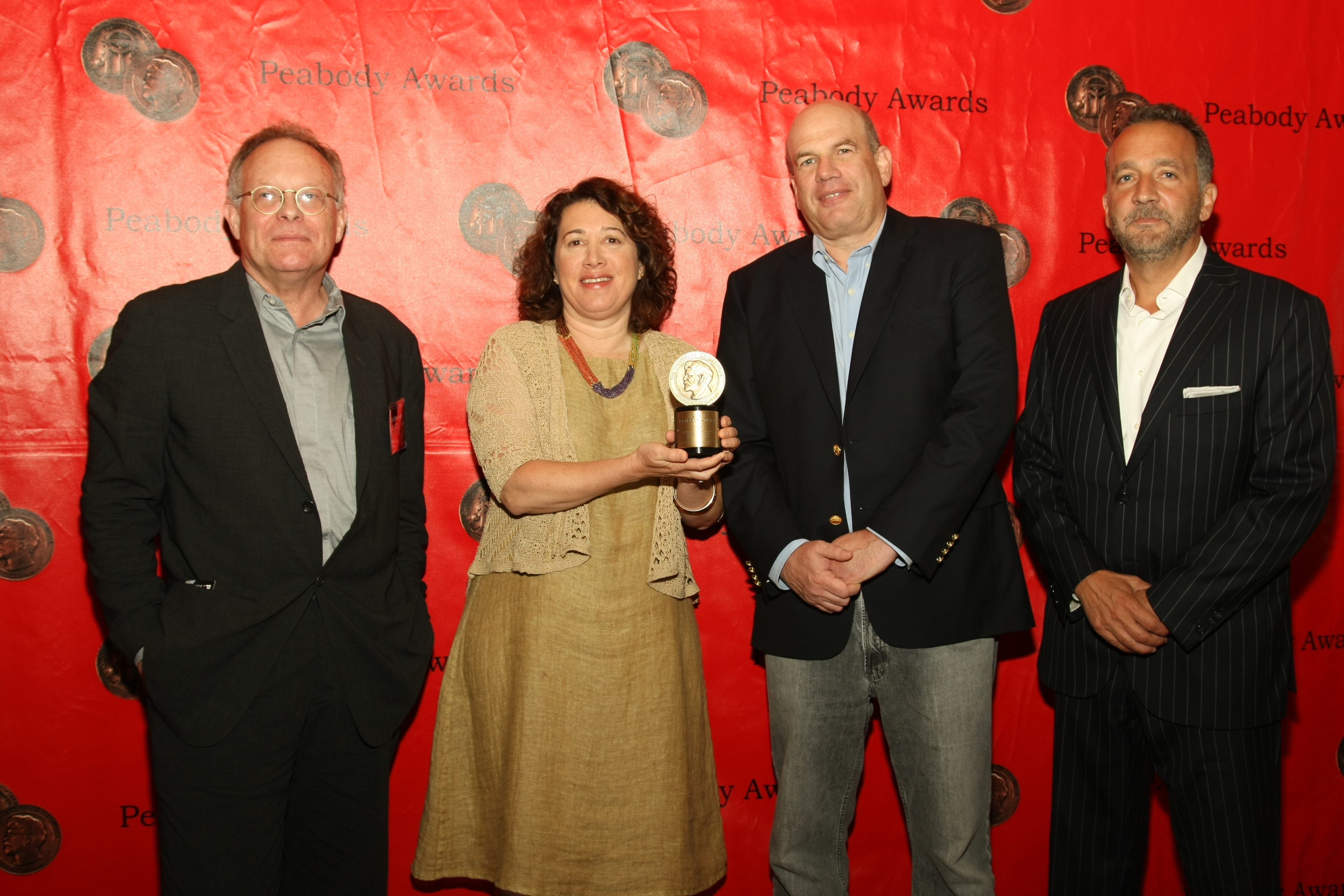 PHOTO CREDIT: ANDERS KRUSBERG / PEABODY AWARDS Eric Overmyer, Nina Kostroff Noble, David Simon, and George Pelecanos, 71st Annual Peabody Awards Luncheon Waldorf-Astoria Hotel, May 21, 2012